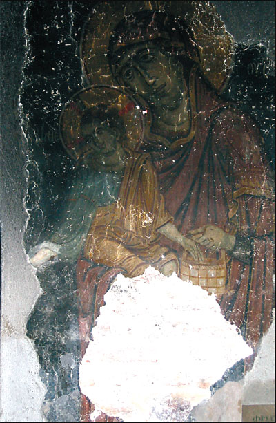 A photograph of the famous fresco Bathing of the Christ, after being vandalized by a Kosovo Albanian mob during the 2004 unrest in Kosovo. Located in Bogorodica Ljeviška (Our Lady of Ljevis), Kosovo and Metohija, Serbia. Public domain rationale: This is a faithful representation of a partially destroyed artwork which was created in the 14th century, and is thus ineligible for copyright. Partial destruction of an artwork does not remove the remaining part from the public domain, and a faithful representation of that part is ineligible for copyright.